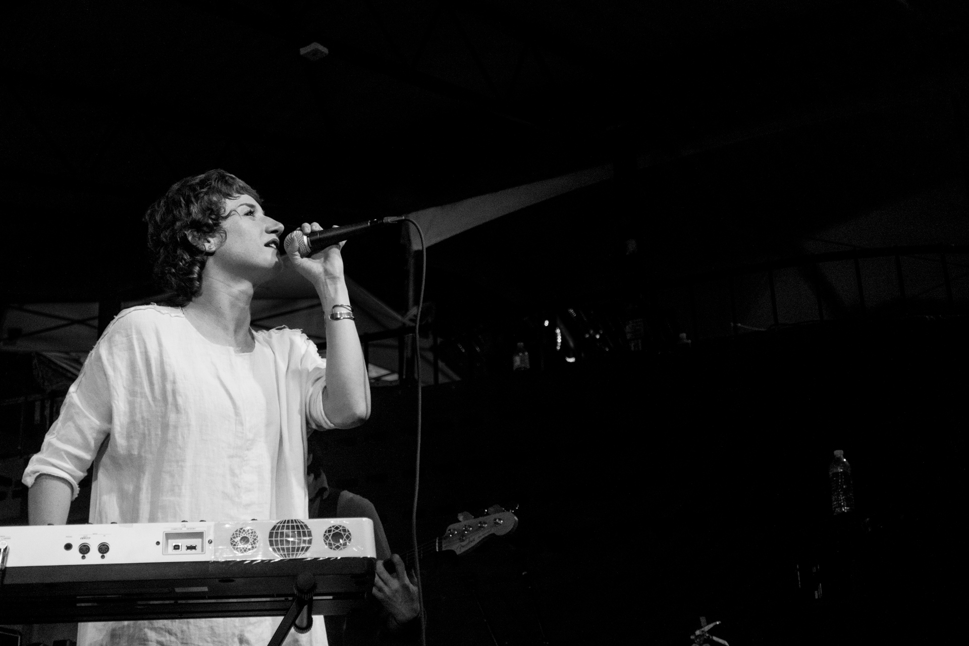 Pure Bathing Culture